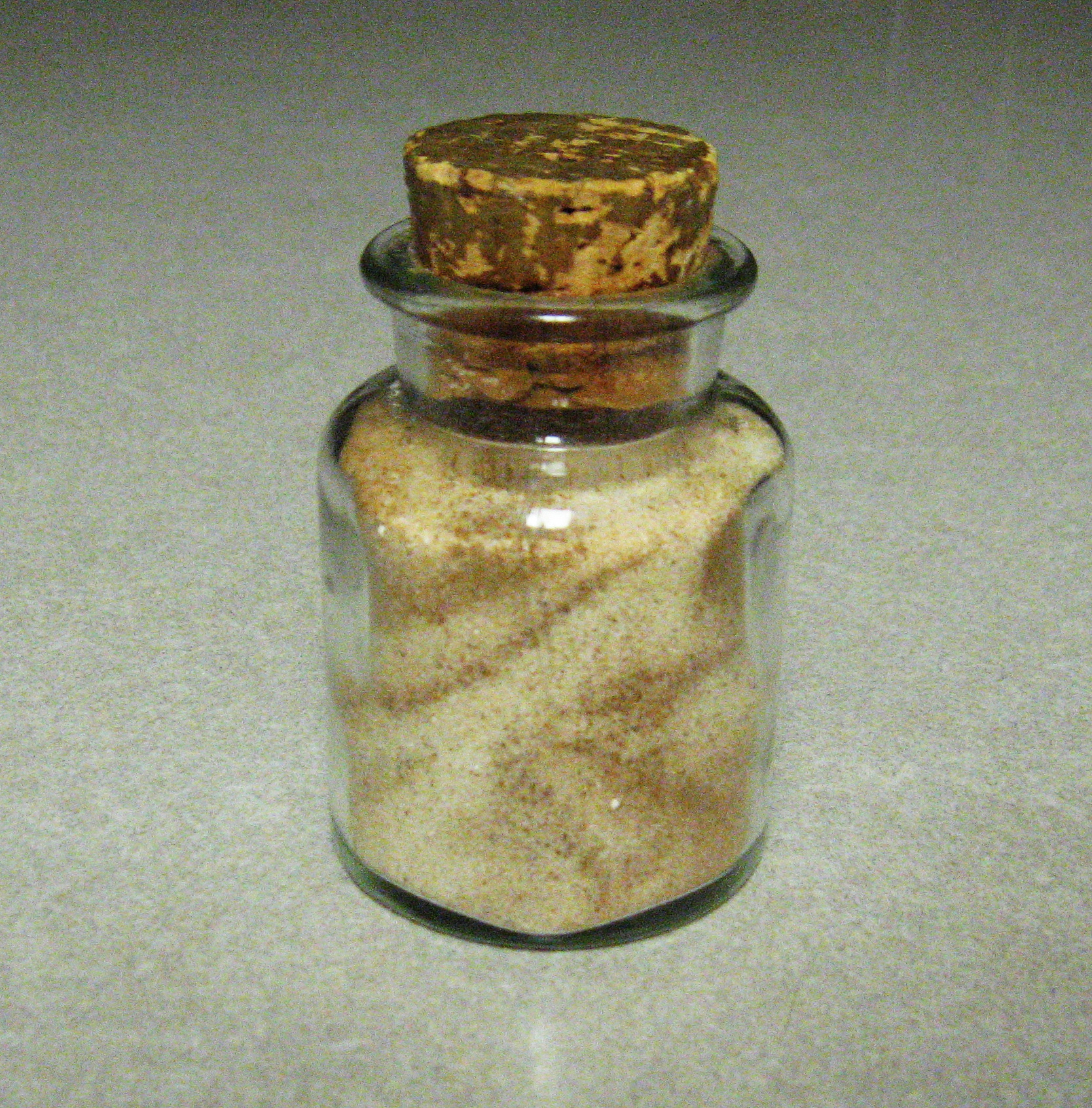 A bottle of cinnamon sugar, made by combining powdered cinnamon and standard sugar.